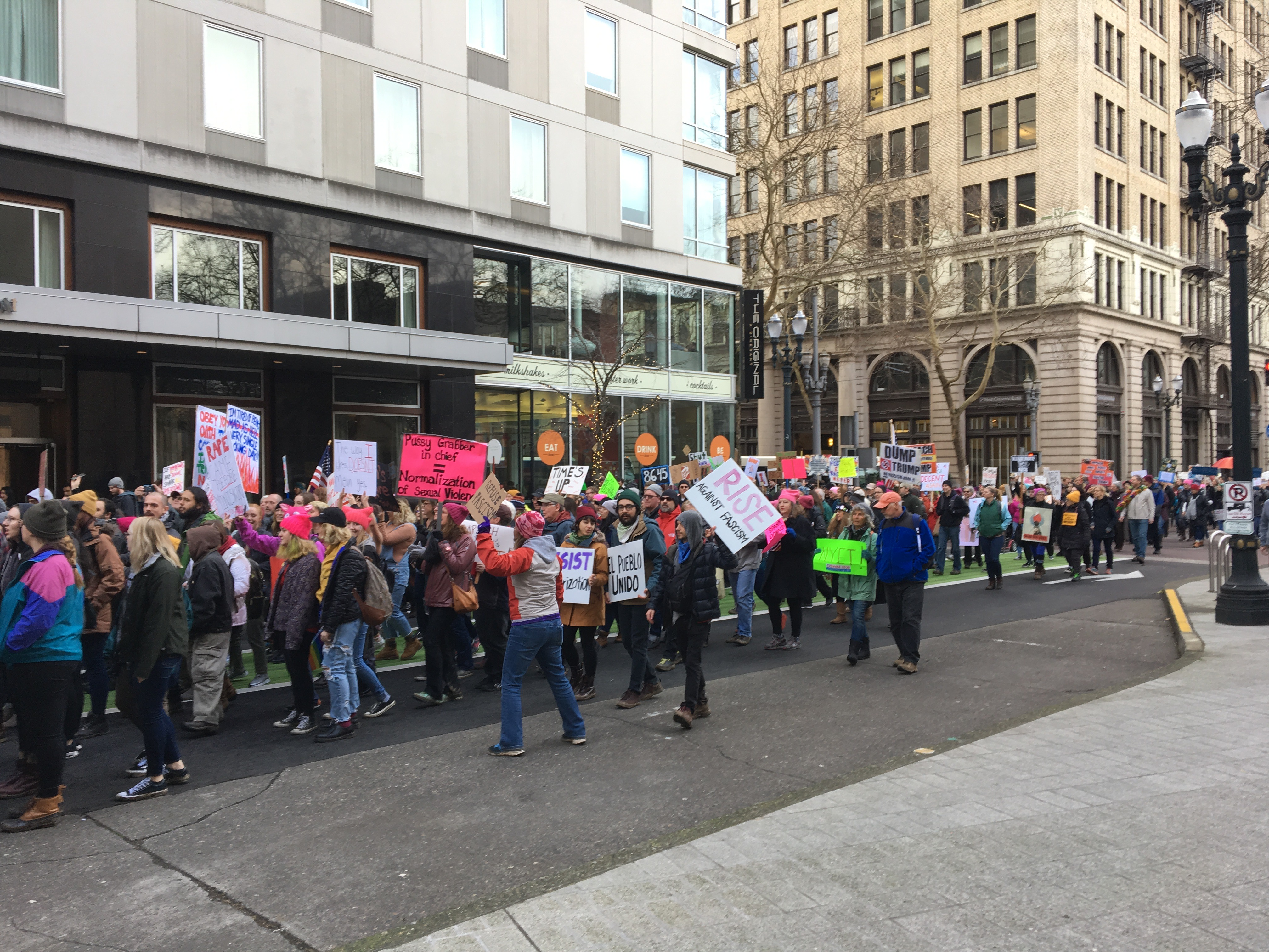 Portland, Oregon Impeachment March, 01/20/17, rally at Terry Schrunk Plaza and then march through downtown Portland to Tom McCall Waterfront Park.